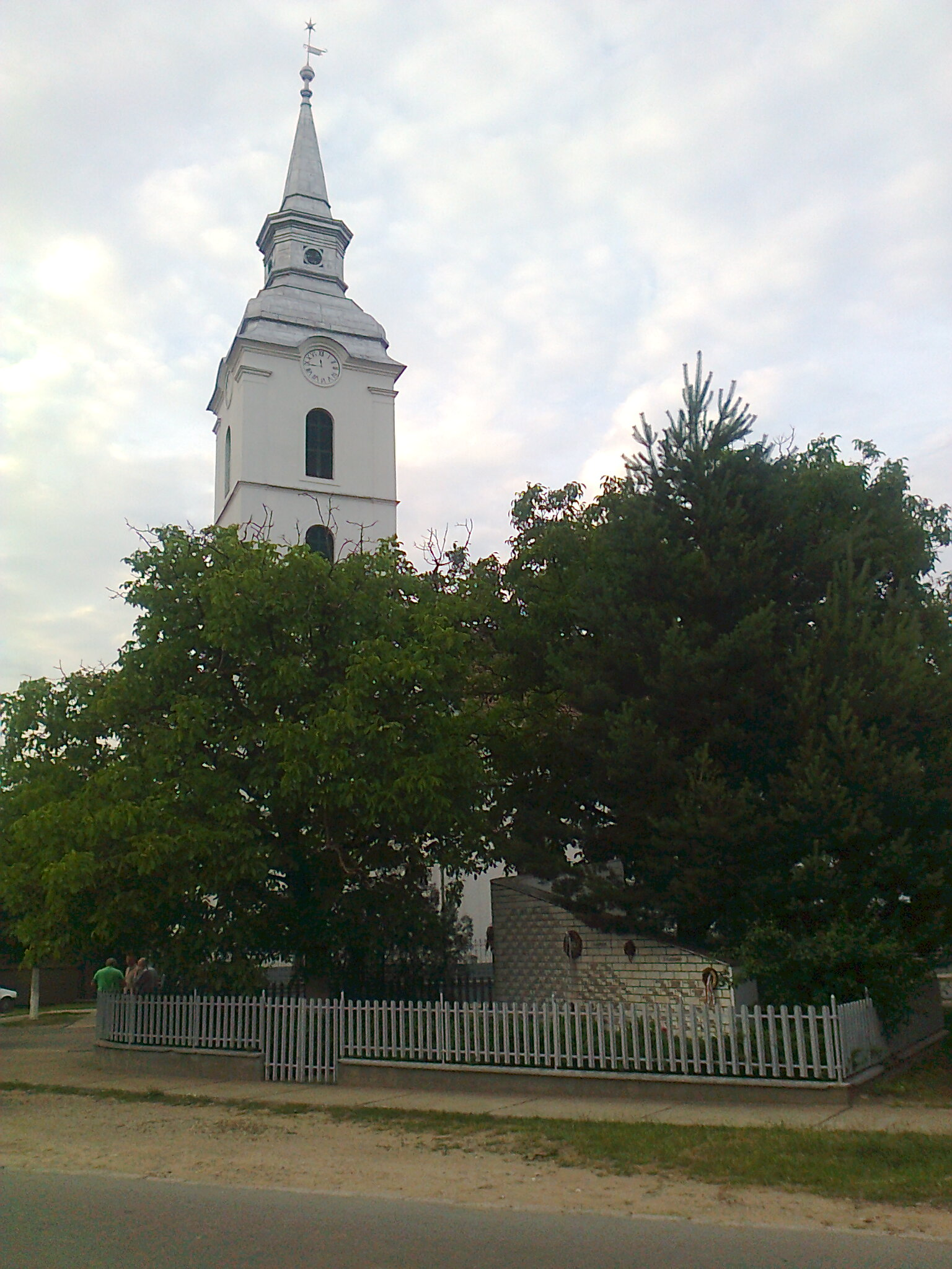 Reformed Church in Köröstárkány (Tarcaia, Romania) with the Memorial of killed Hungarians by Romanian paramilitaries in 1919